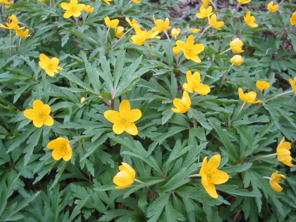 "Yellow woodland anemone". Judeţul Dâmboviţa, România.